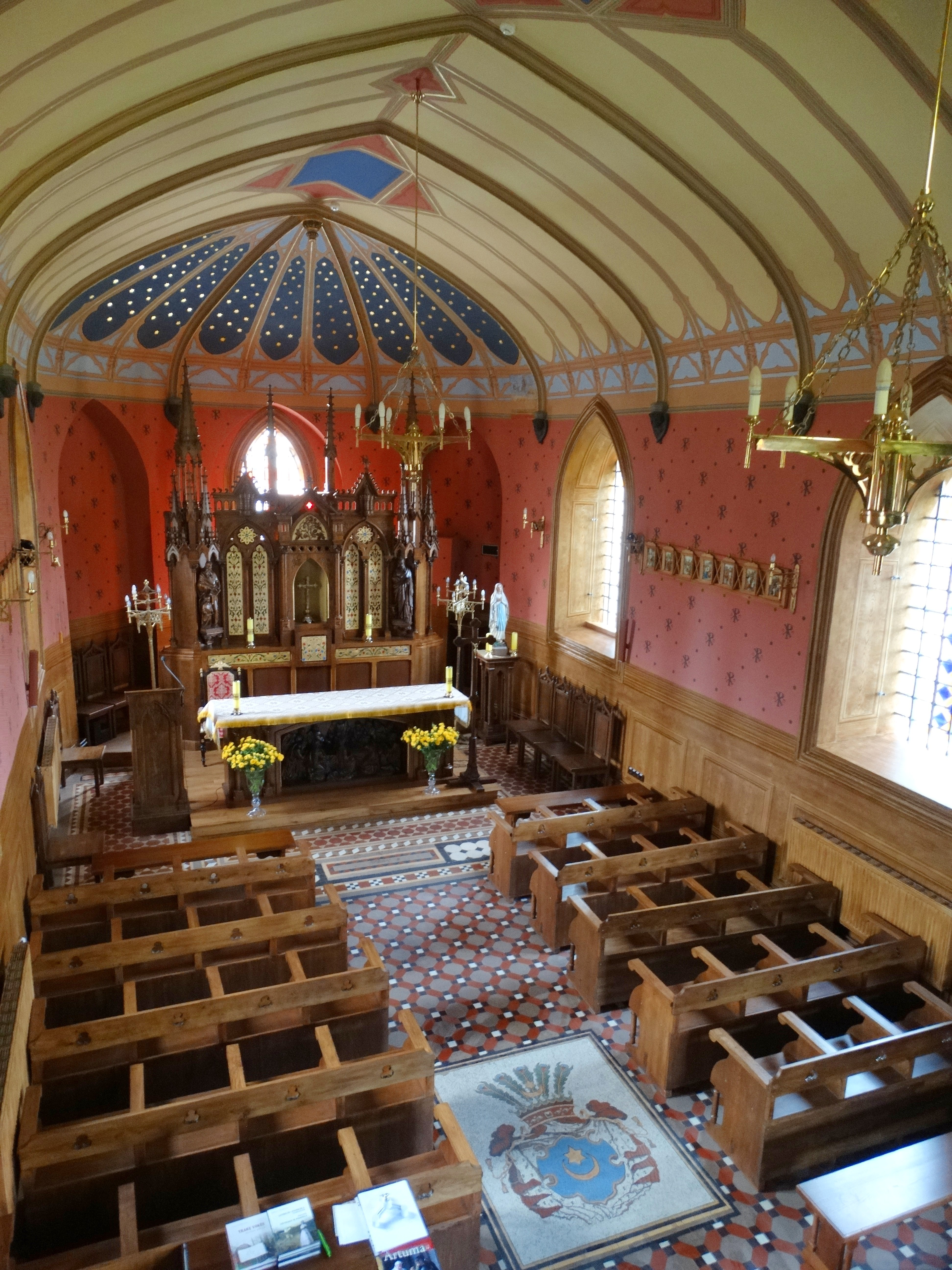 Interior, Tyszkiewicz chapel, Trakų Vokė, Vilnius, Lithuania